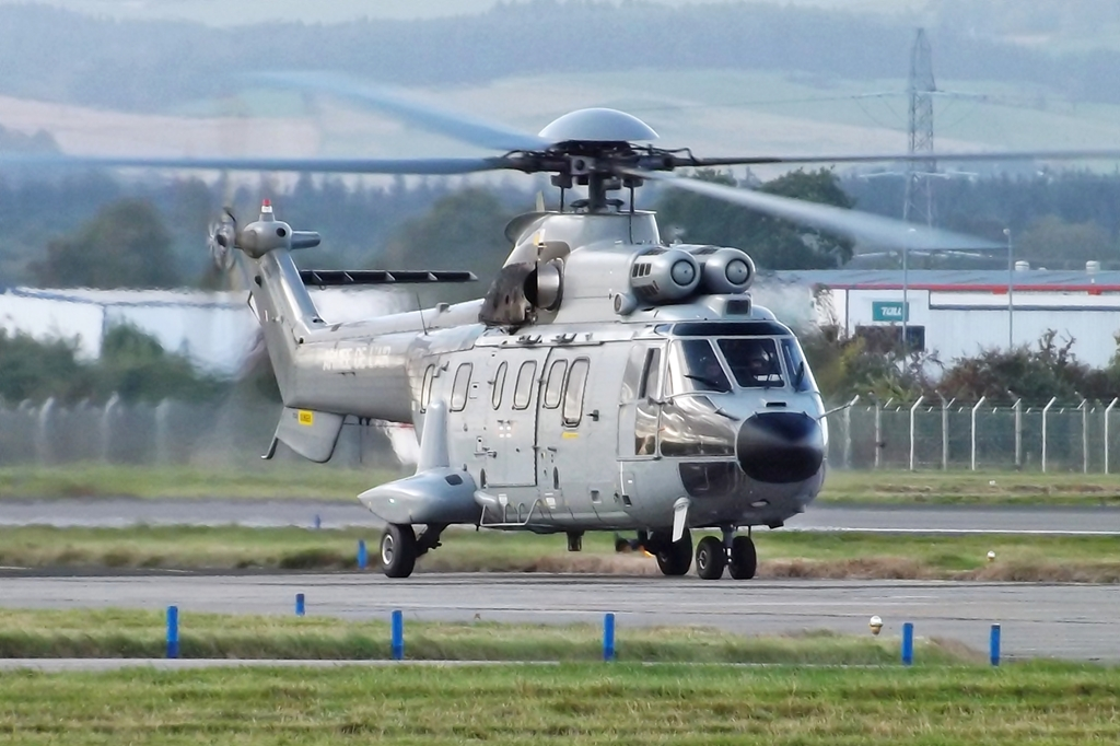 F-RAFY (2233/FY) Eurocopter AS332 Super Puma French Air Force